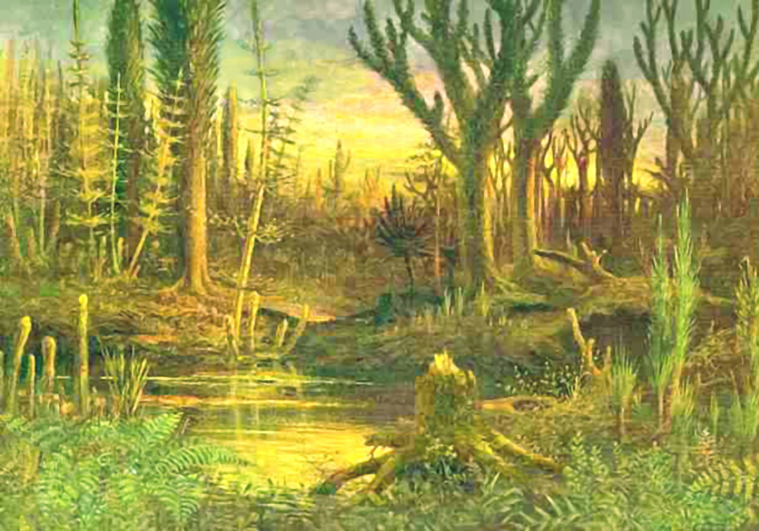 Artistic depiction of early Devonian land-flora.